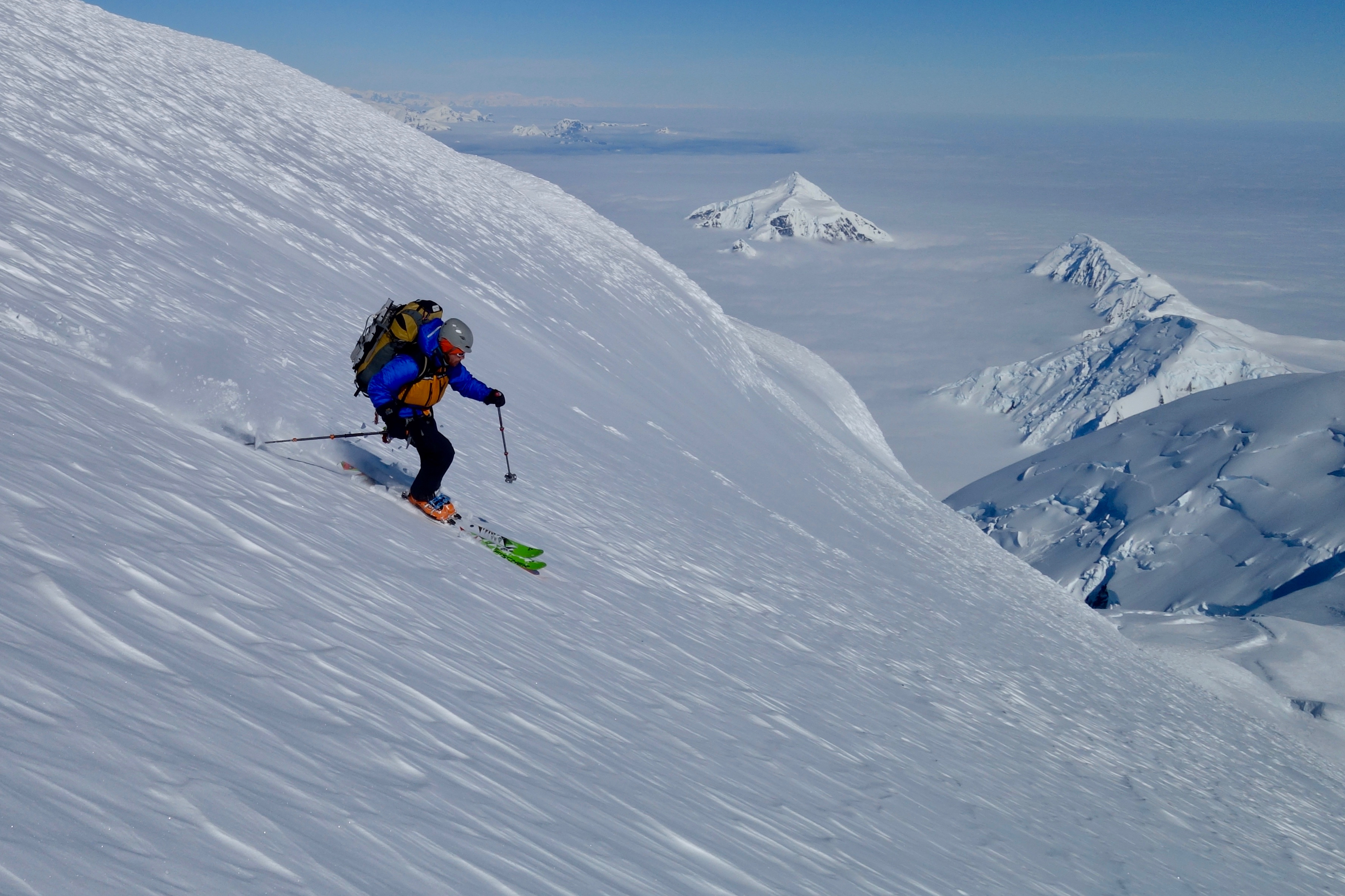 A mountaineer skis the upper slopes of Mount Français during the first traverse of the mountain via Zeus ridge and the Achaean Range.